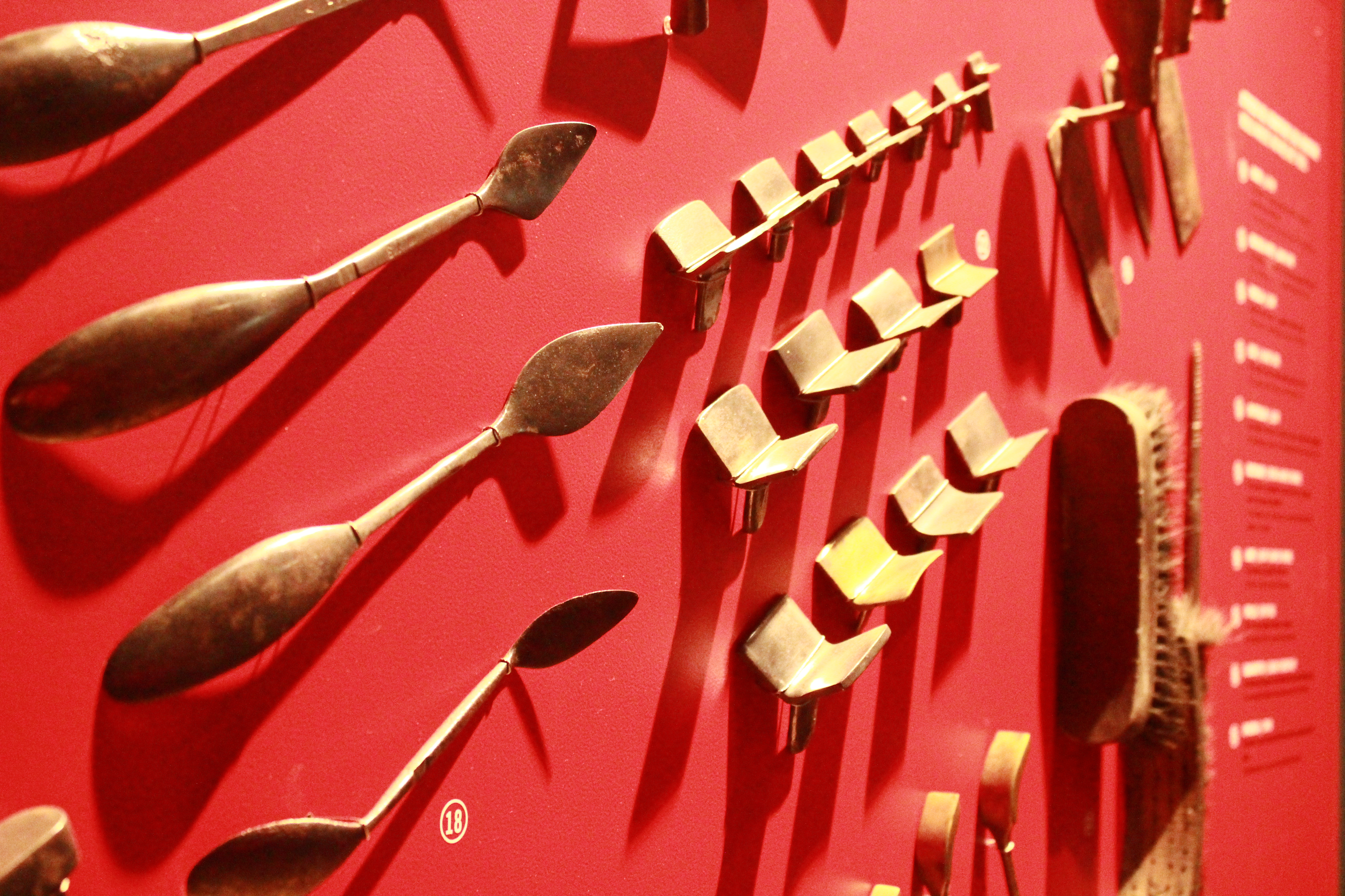 MAGMA Follonica